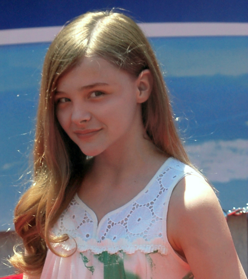 Chloë Grace Moretz at the premiere for Earth